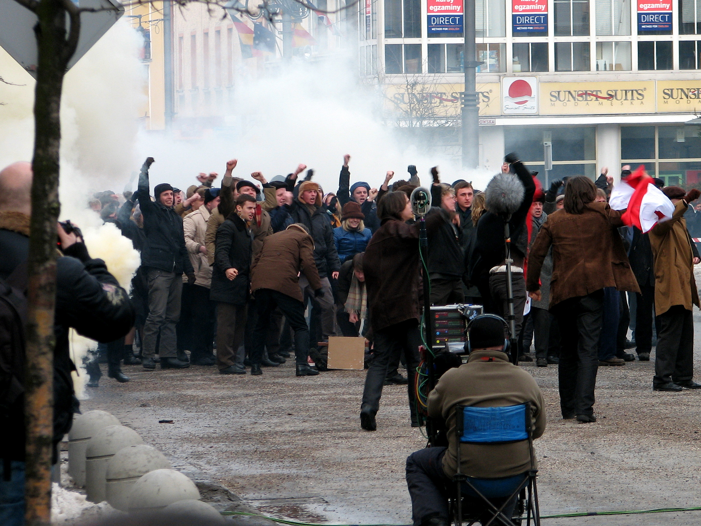 Filmmaking of "Black Thursday" on ulica Świętojańska in Gdynia. People on this picture were actors, background actors, other workers of film crew or workers of subcontractors. "Black Thursday" is film about Polish 1970 protests.